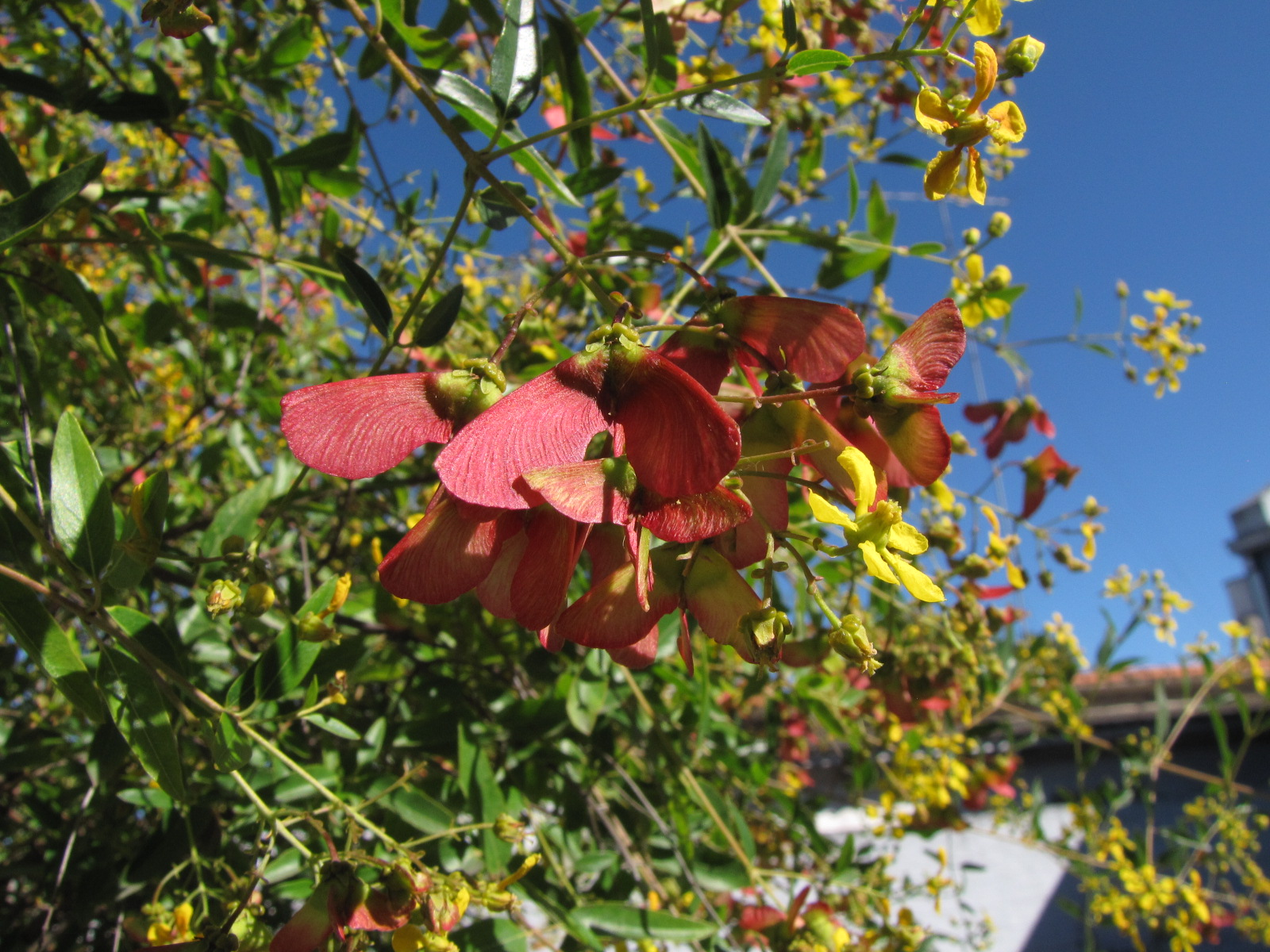 Is a plant of my garden